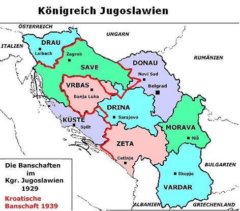 Administrative division of Kingdom of Yugoslavia